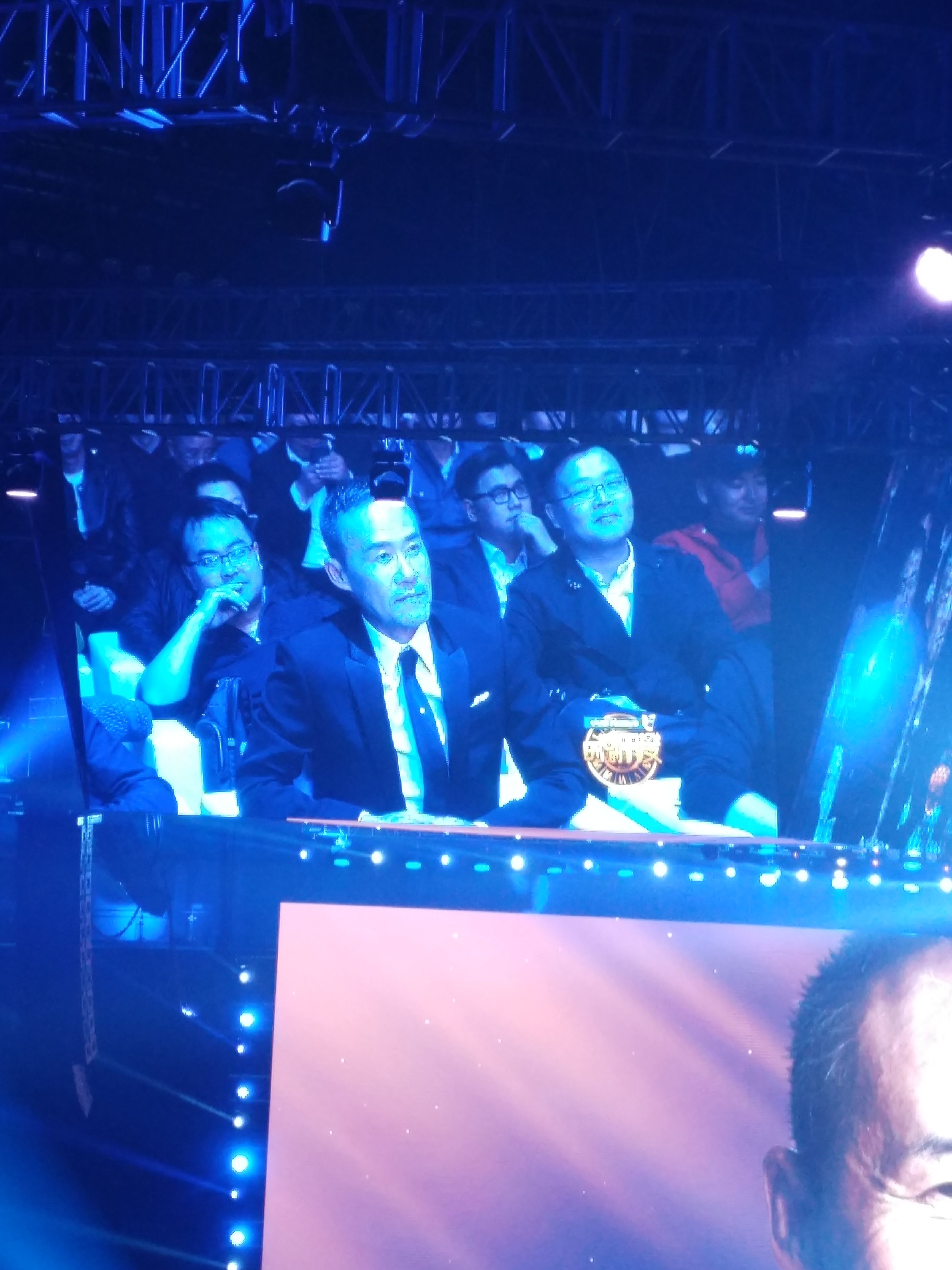 Wang Shi attended a lecture in Shenzhen on 31 December 2016.